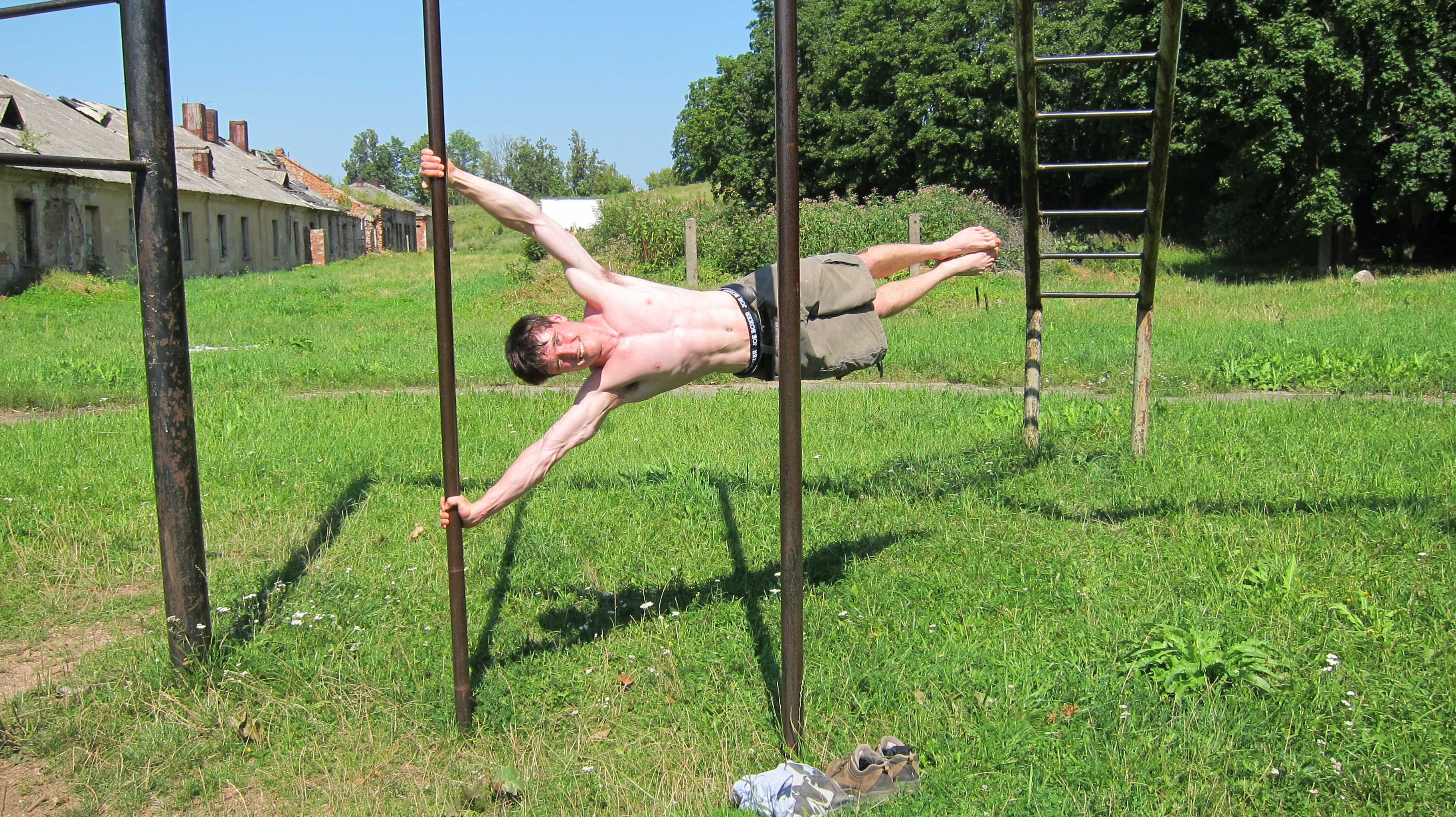 This photograph was taken in Daugavpils, Latvia in summer of 2012.